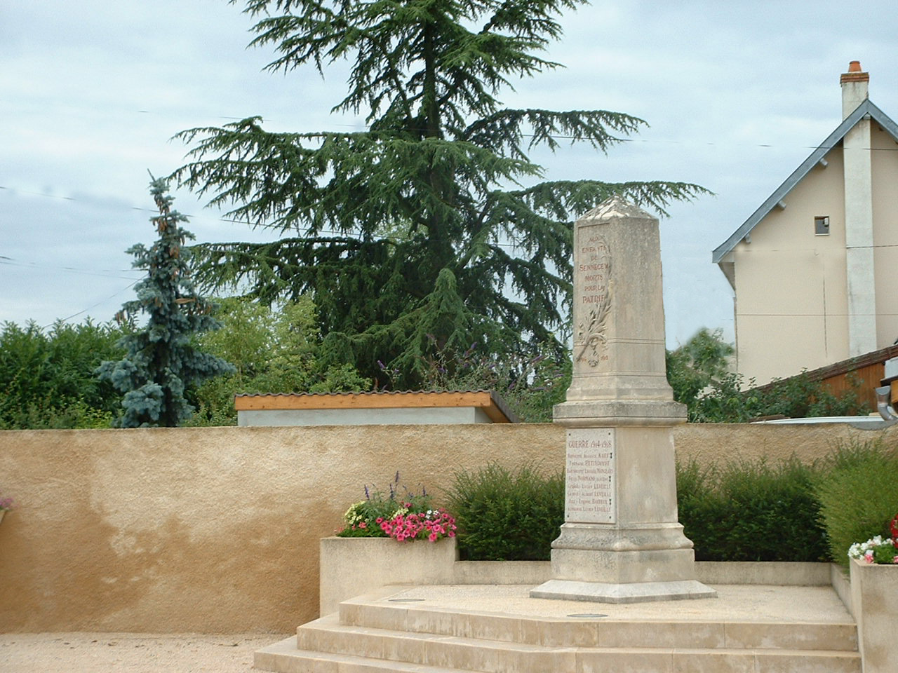 This is the commemorative monument of the both world war. It takes place in front of the municipal building.